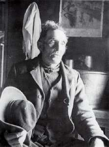 Tomás Ó Criomhthain (1856-1937), a writer from Ireland